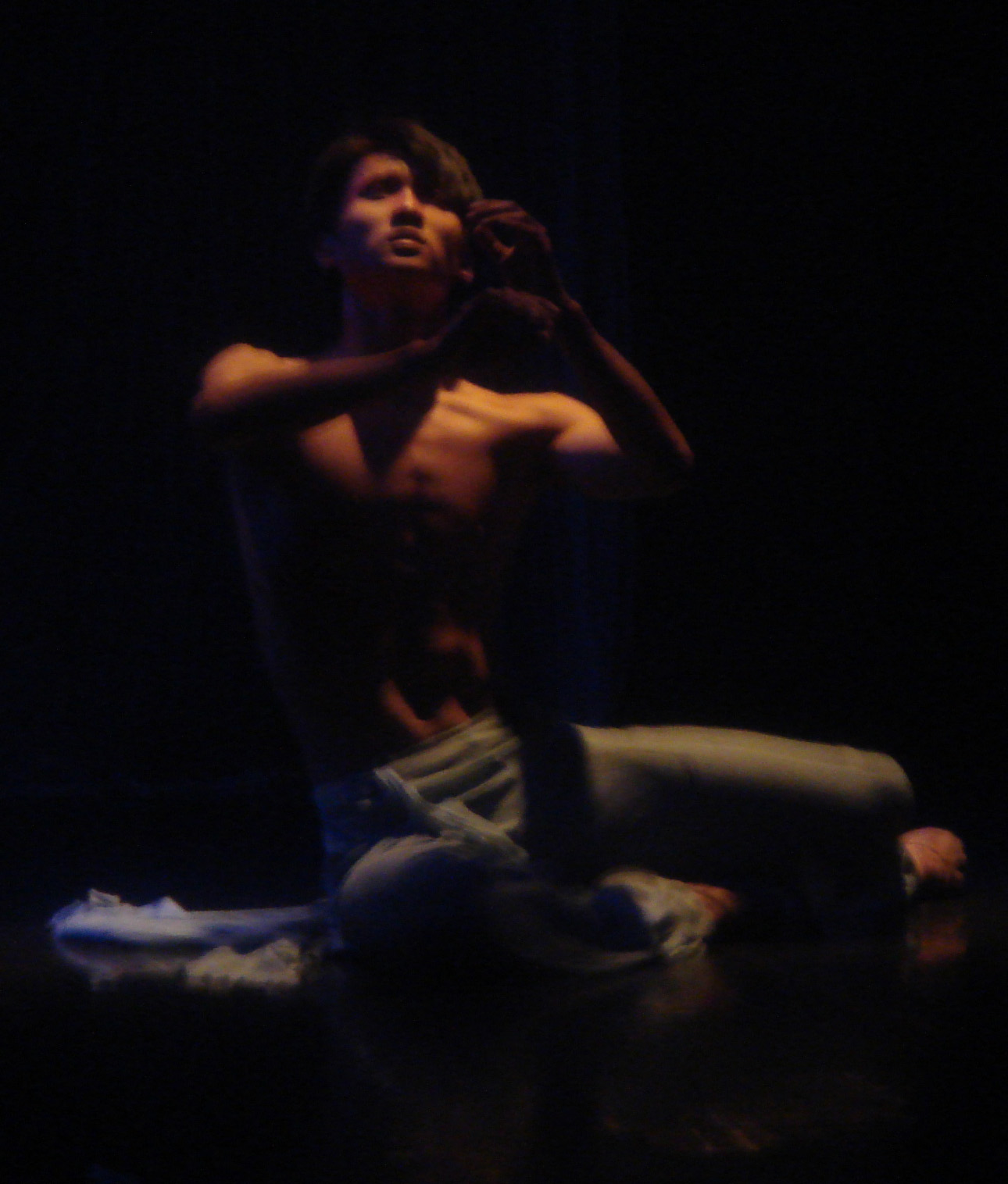 Sūn Ruì in Stirred From A Dream